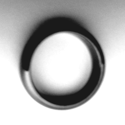 A black ring is a symbol of asexuality and is most commonly worn on the right middle finger.